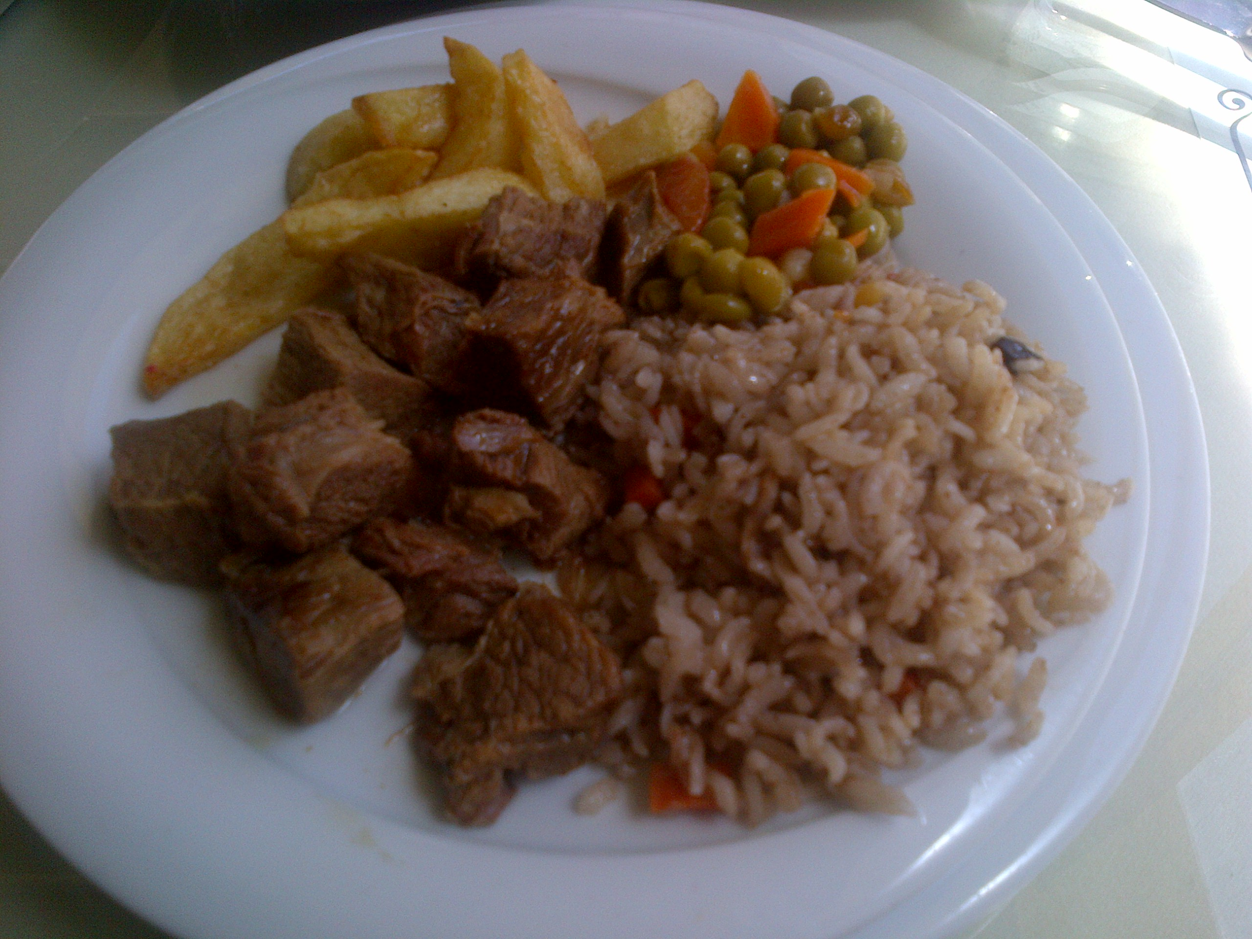 "Kavurma" and "içli pilav" (or iç pilav) from the Turkish cuisine, with potatos and peas on the side.